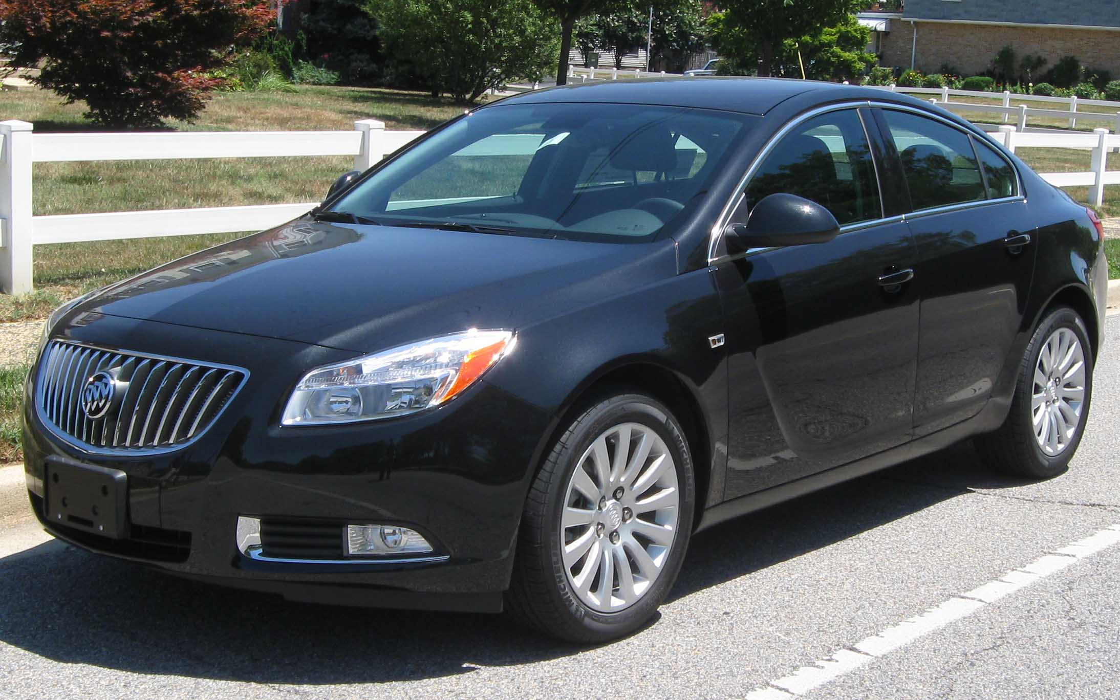 2011 Buick Regal CXL photographed in Annapolis, Maryland, USA.